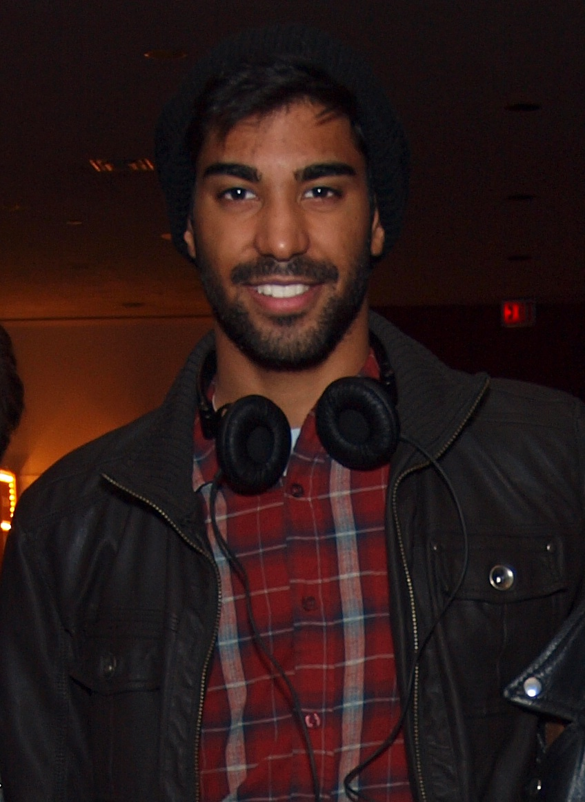 Raymond Ablack at the 2010 Gemini Awards